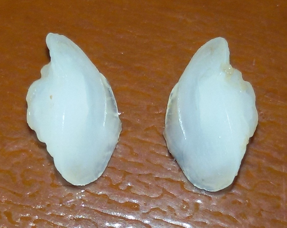 Otolithum sciaenae of Pseudosciaena crocea